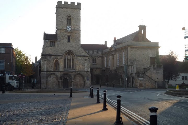 Abingdon, Oxfordshire (formerly Berkshire): St. Nicholas' parish church